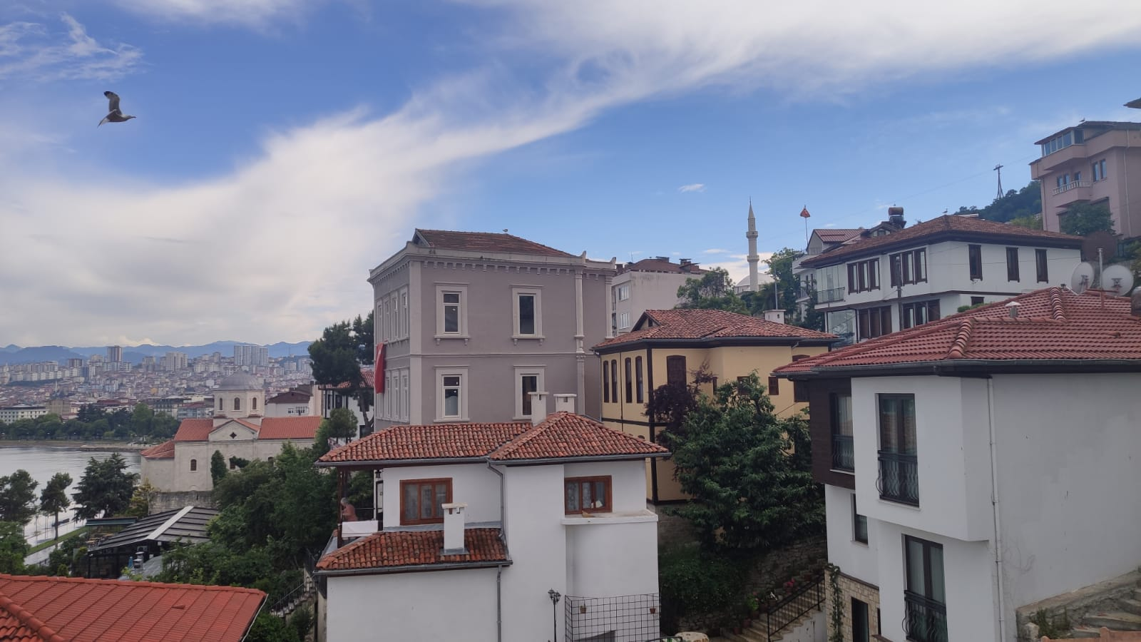 Ordu, Oldtown